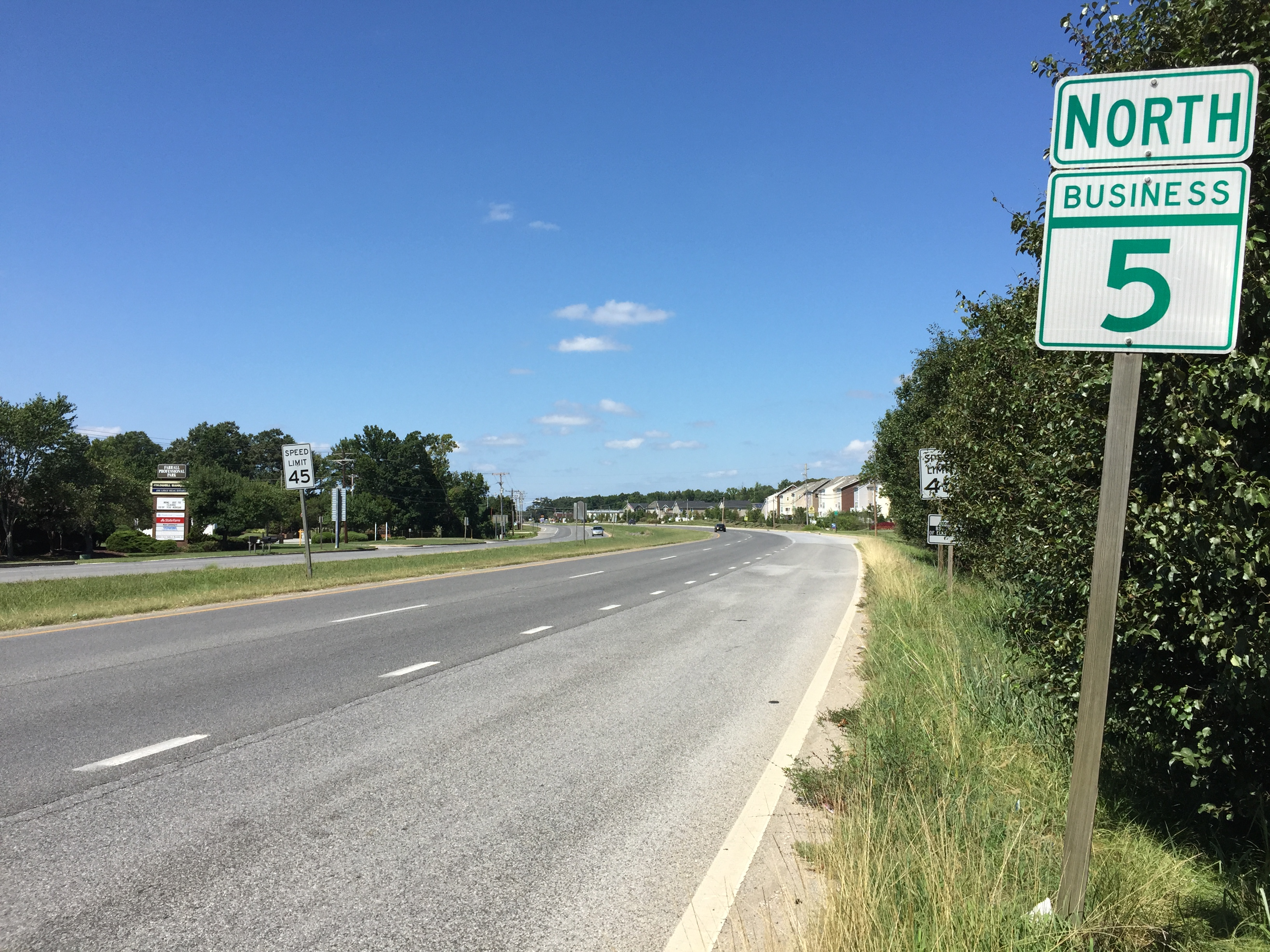 View north along Maryland State Route 5 Business (Leonardtown Road) at Maryland State Route 5 (Mattawoman-Beantown Road) in Waldorf, Charles County, Maryland